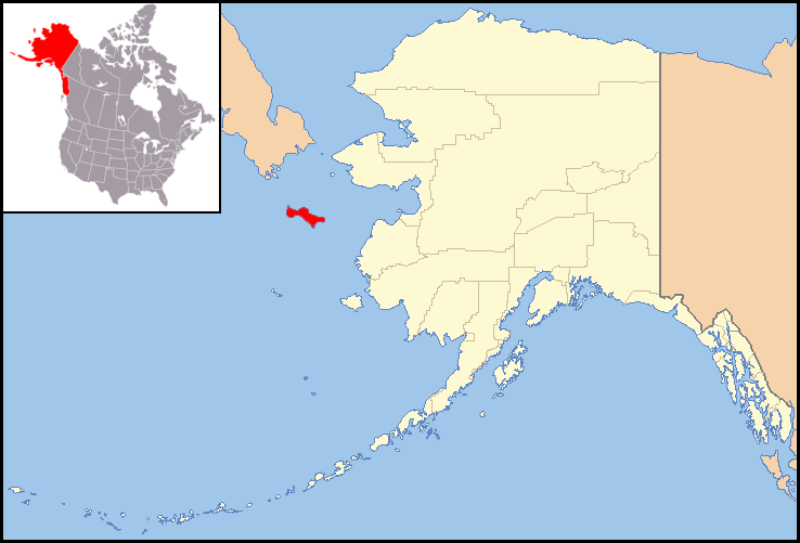 Use with En:Template:Location map USA Alaska, (N.B. Canada and Russia borders are approximate, from National Atlas). Location of St Lawrence Island.